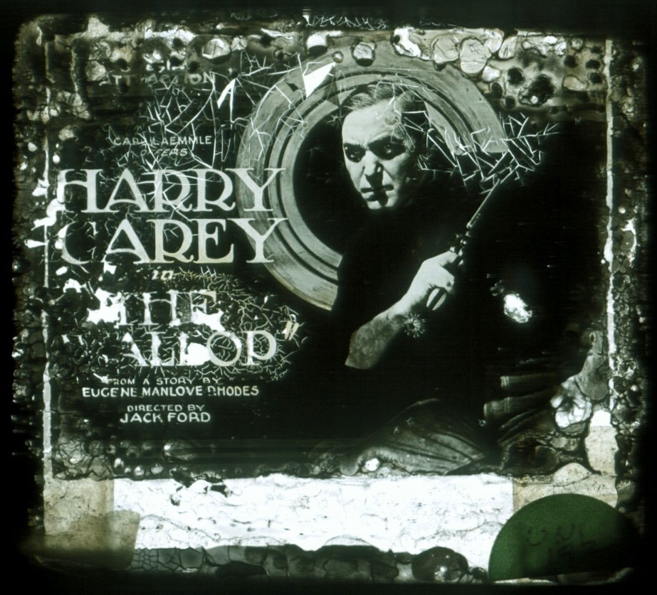 The Wallop is a 1921 American Western film directed by John Ford and starring Harry Carey. This is a lantern slide for the film. Source was damaged.